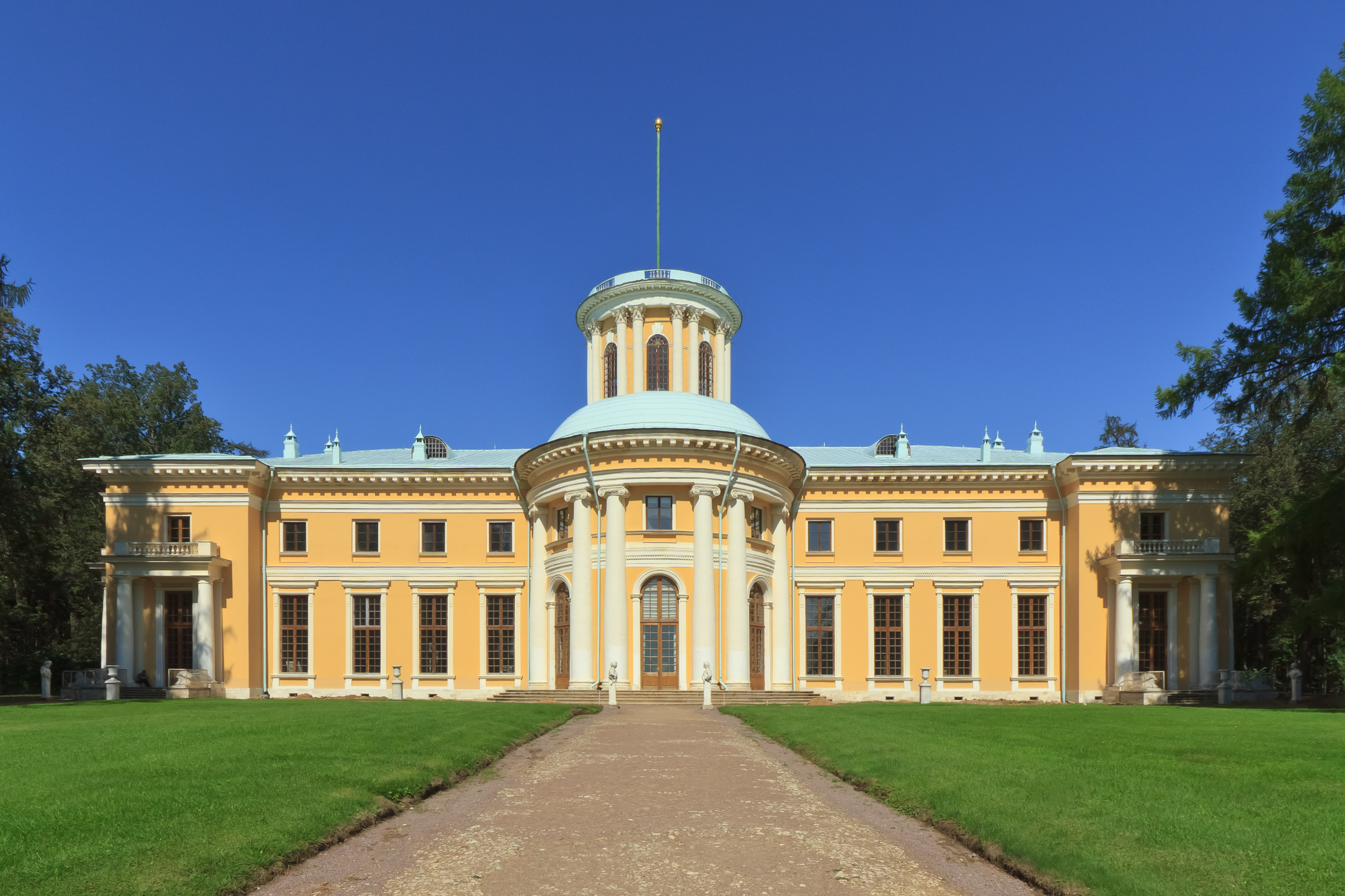 Former Arkhangelskoe Estate in Krasnogorsky District of Moscow Oblast, Russia. The main palace.